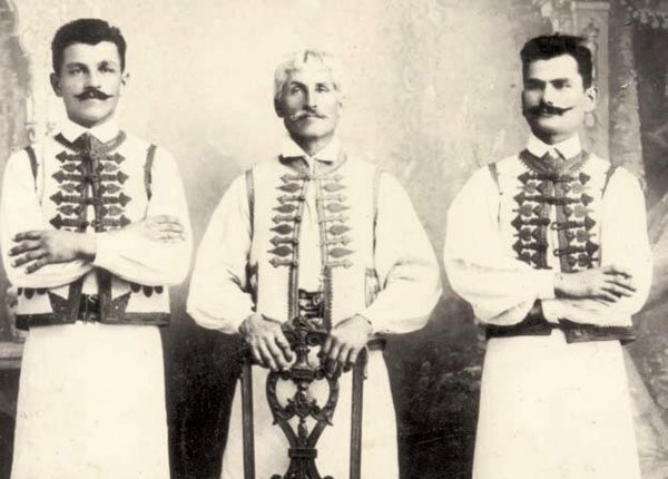 Iosif, Nestor (the father of the others) and Iuliu Bosioc, religious wood sculptors in 19th century, Banat, Austria-Hungary, now Romania